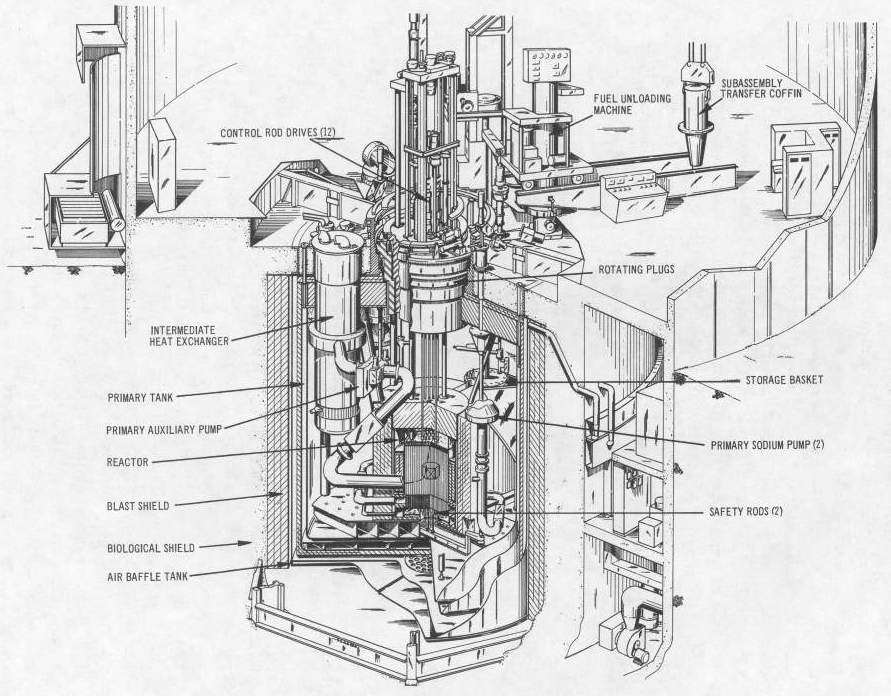 Experimental Breeder Reactor II. Cross-section drawing.